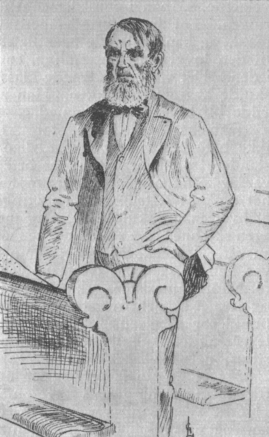 Søren Jaabæk. Drawing by Gustav Lærum in Verdens Gang, October 23, 1891.